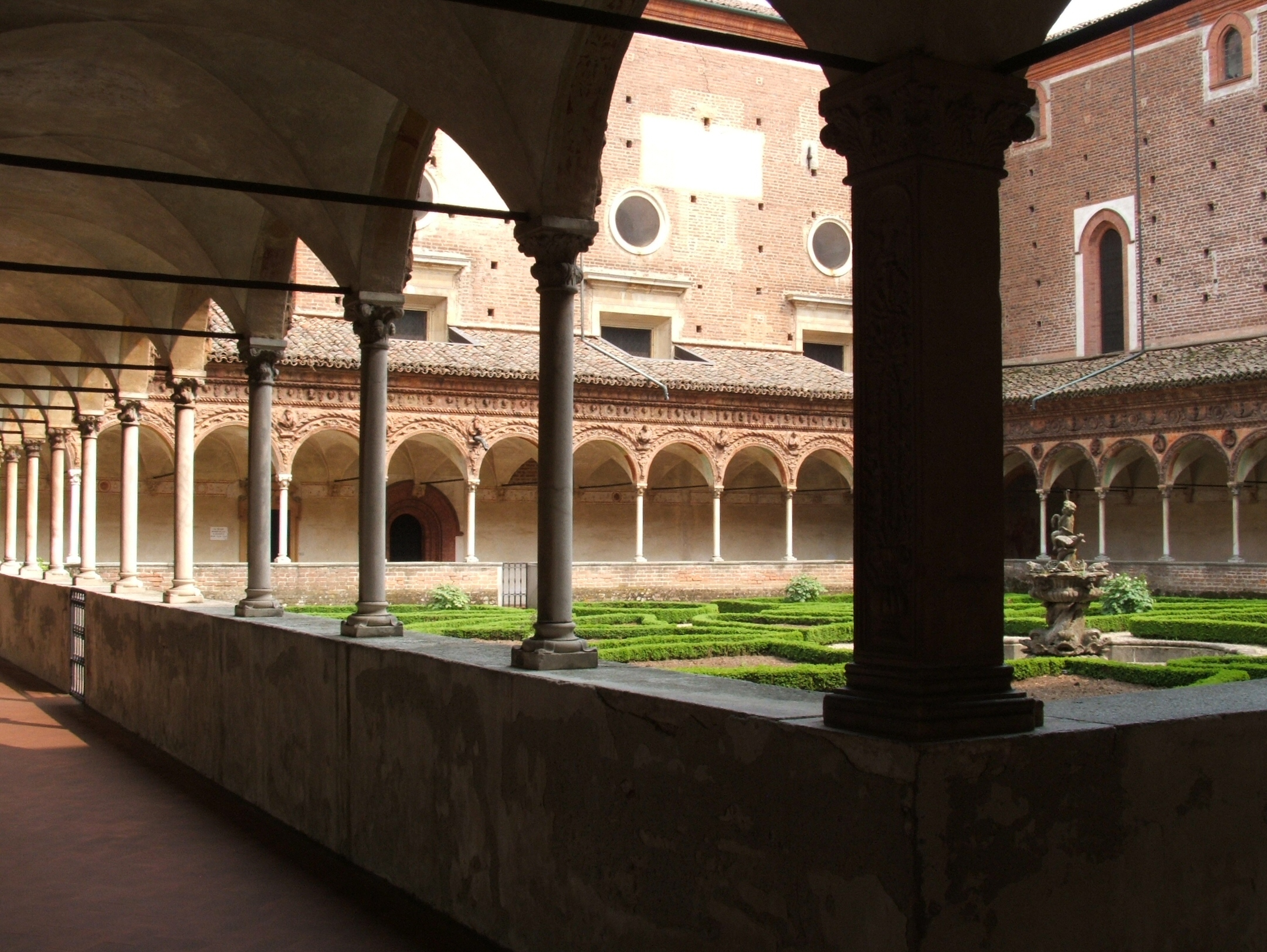 Monastery of Certosa di Pavia, near Pavia, Italy - small cloister